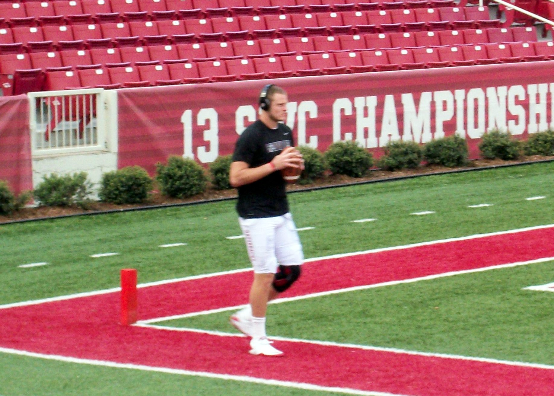 Ryan Mallett warms up before Arkansas vs Ole Miss at Razorback Stadium